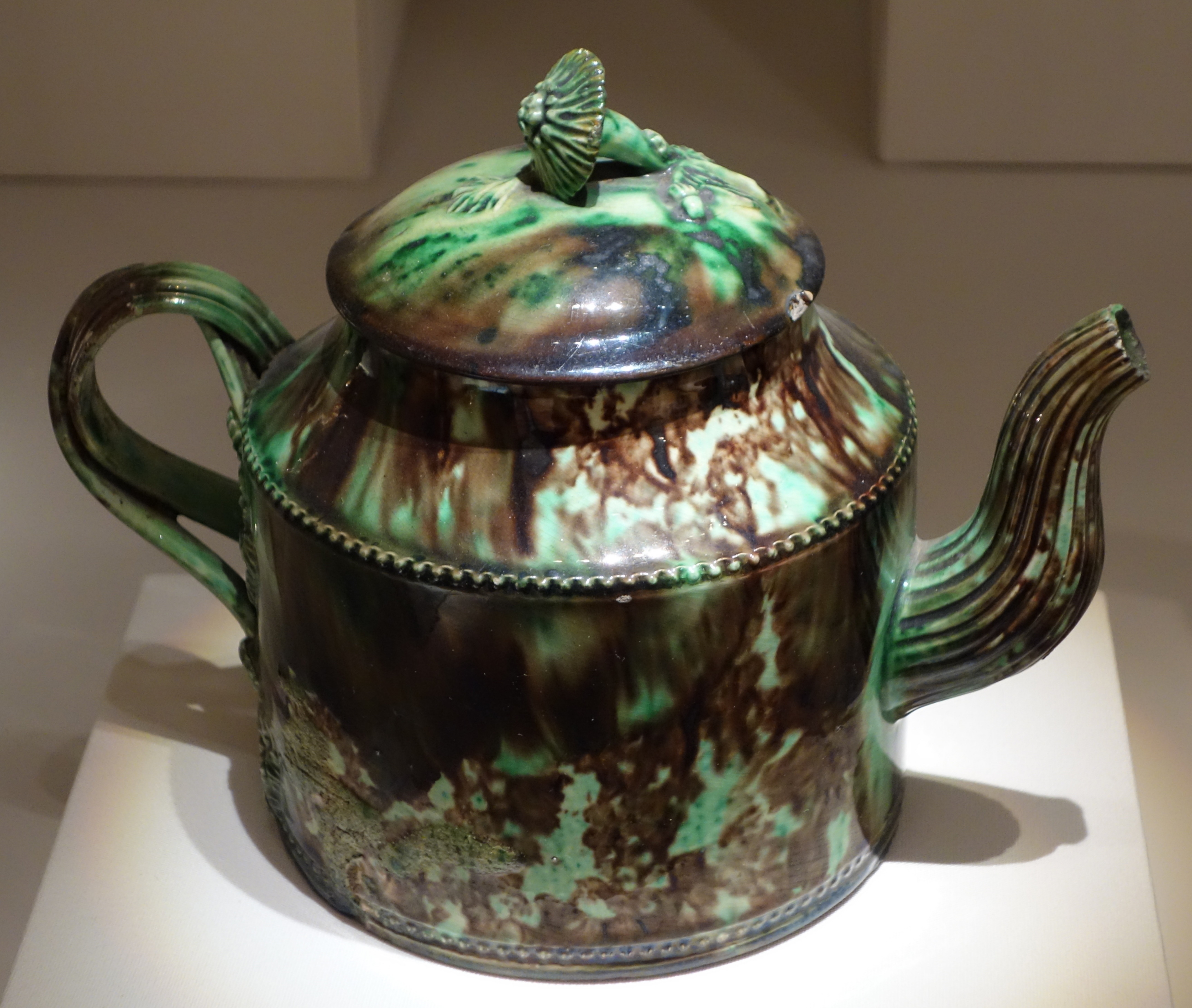 Exhibit in the Chazen Museum of Art, University of Wisconsin-Madison, Madison, Wisconsin, USA. This artwork is old enough so that it is in the public domain.